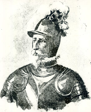 Guido de Lavezaris (c.1499? - d. 1581?) — first came to the Philippine islands in 1542 as a member of the Ruy López de Villalobos expedition, and returned in 1564 as the treasurer for legendary Miguel López de Legazpi expedition . Second Governor-General of the Philippines.